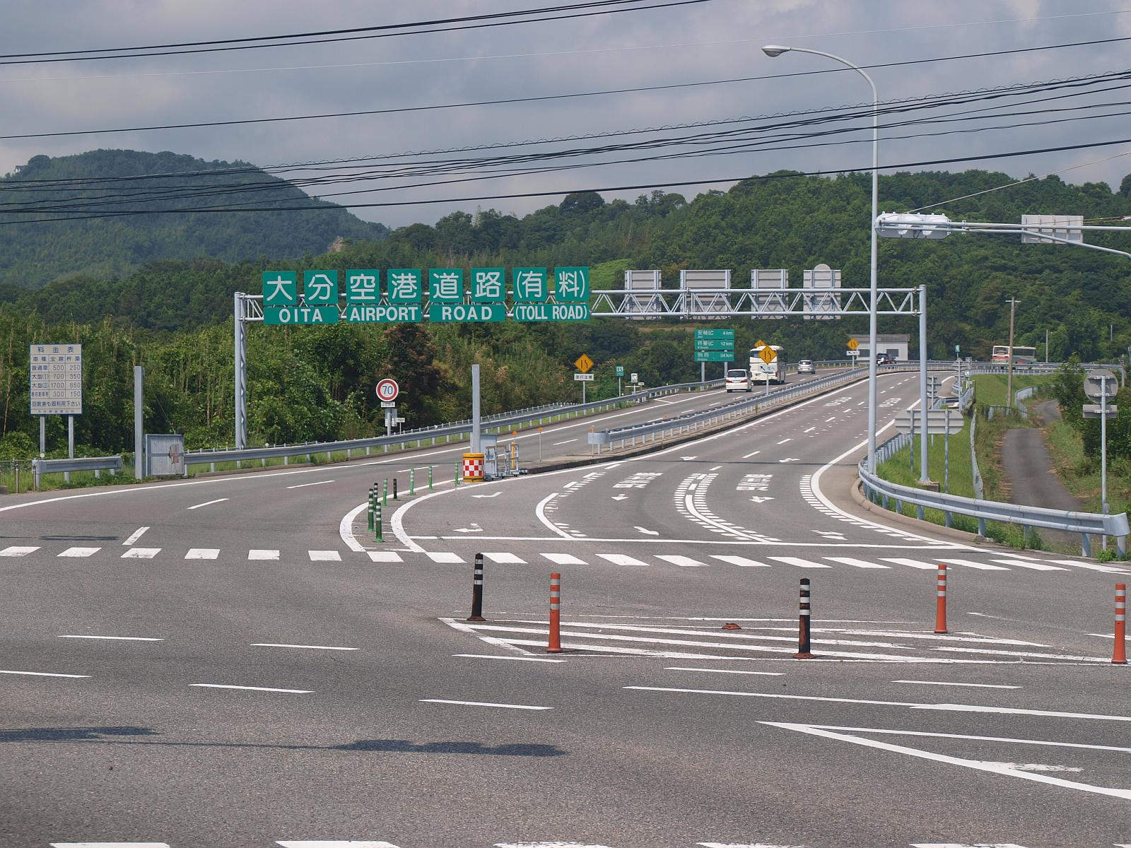 Aki Crossroad, Oita Airport Road